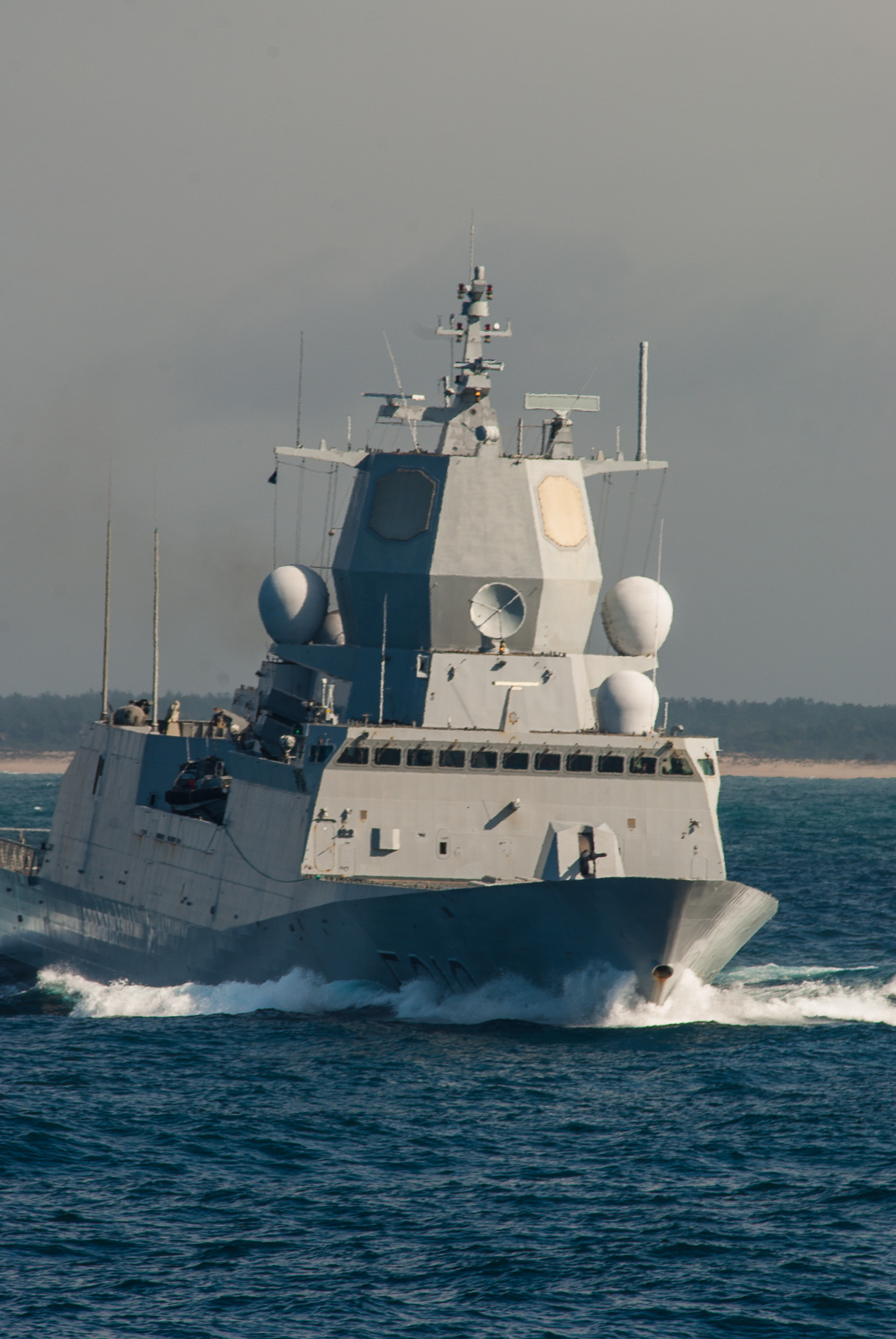 The Royal Norwegian Navy frigate KNM Fridtjof Nansen (F310) ploughing the waves at the end of exercise Trident Juncture 2015.